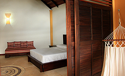 Bungalow at The Hotel Amazon Bed & Breakfast, Leticia, Amazonas, Colombia